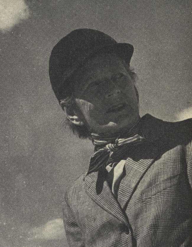 Margaret Cabell Self, author horse rider. Deceased.